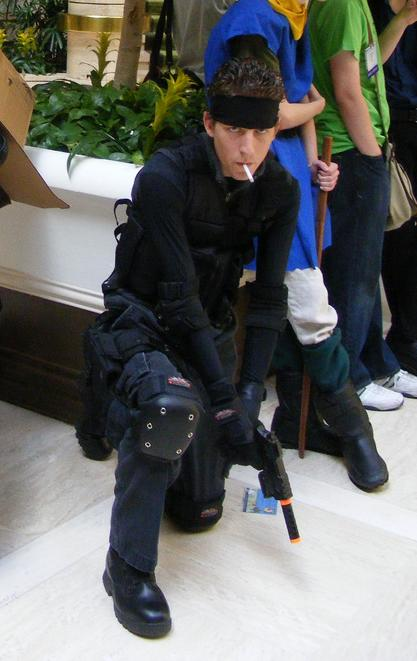 Cosplays of Solid Snake, from the MGS game series.